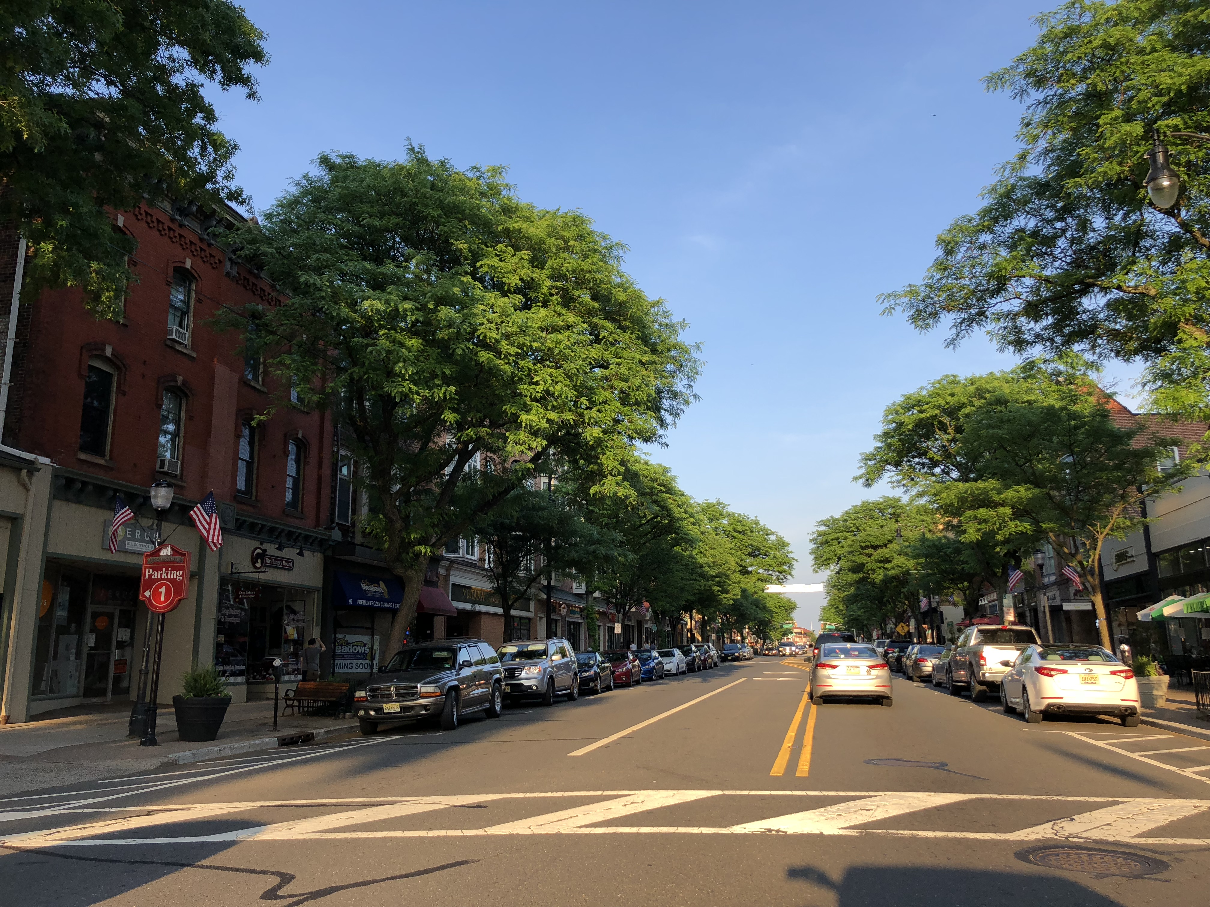 View east along New Jersey State Route 28 (Main Street) at Union Street in Somerville, Somerset County, New Jersey